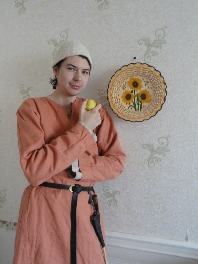 Reconstruction of Slavonic early medieval costume.